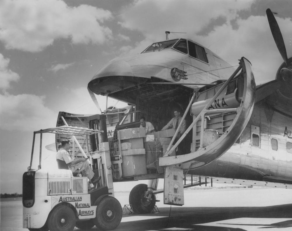 Loading cargo in the hold of an Australian Nationa Airways Bristol Freighter, Queensland, December 1952. Forklift operator loading packages into the hold.